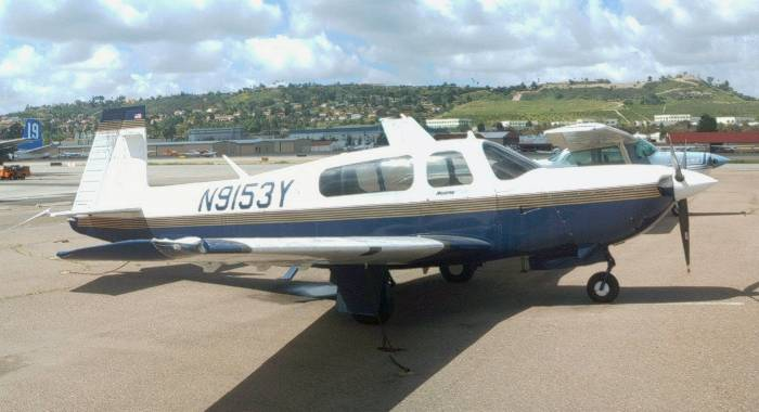 A Mooney M20M. This aircraft had recently been involved in a hangar fire that destroyed an adjacent aircraft. When this picture was taken it was awaiting replacement of some skin panels on the right wing. Some fire damage can be seen on the wing tip. Photo by Bob DuHamel Spring 2003 at Gillespie Field in San Diego County, California, USA